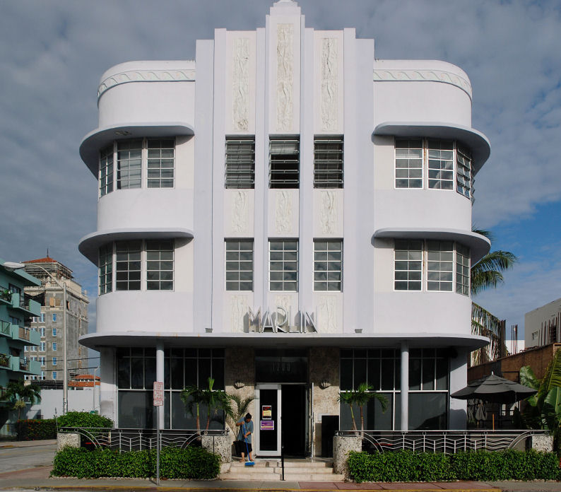 Marlin Hotel - Art Deco architecture on Collins Ave. Miami Beach